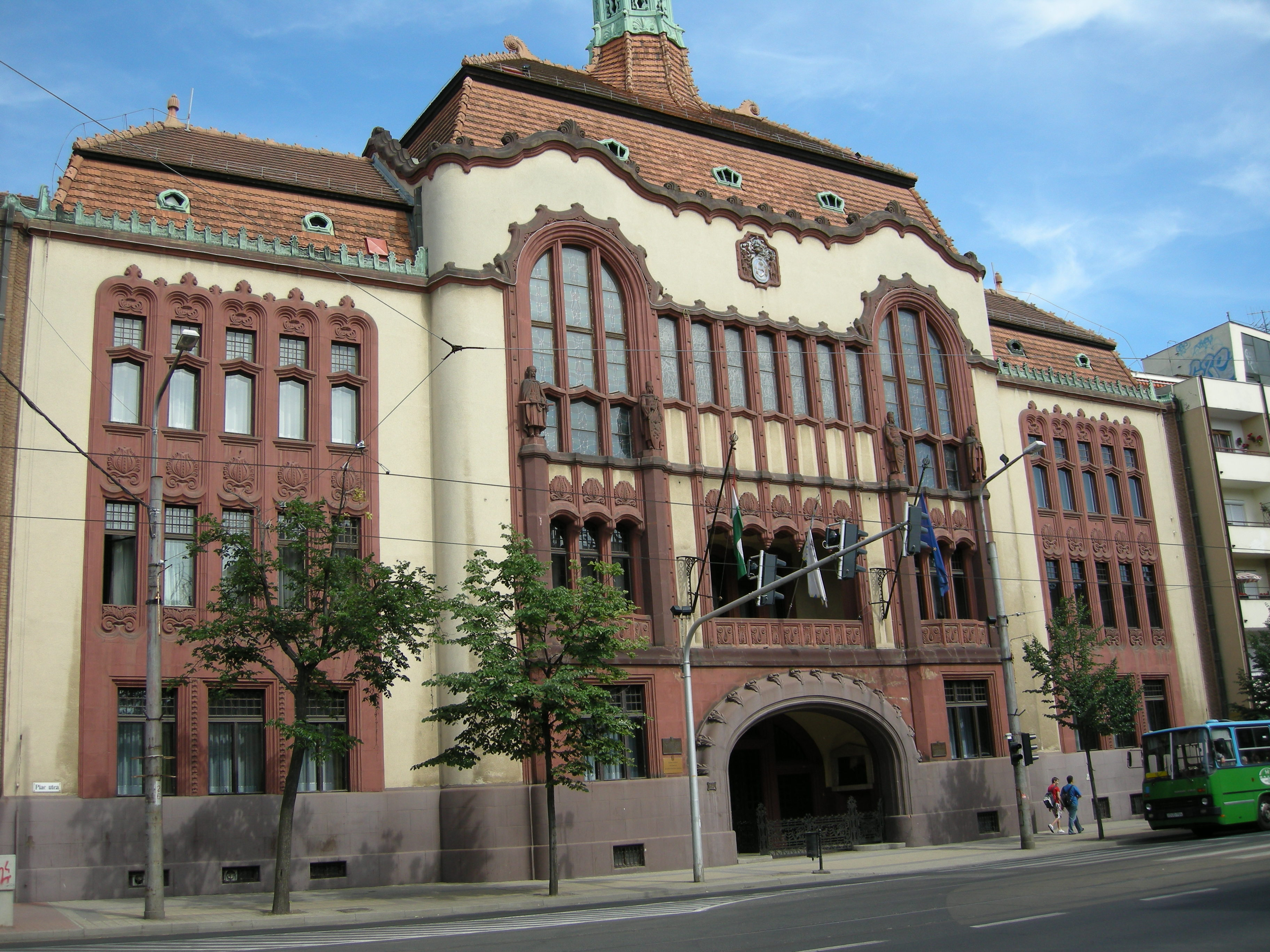 Debrecen buildings along the main road from the university to the railway station